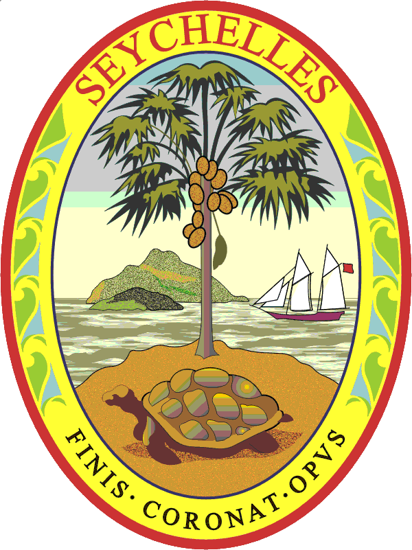 Badge of Seychelles 1961-76